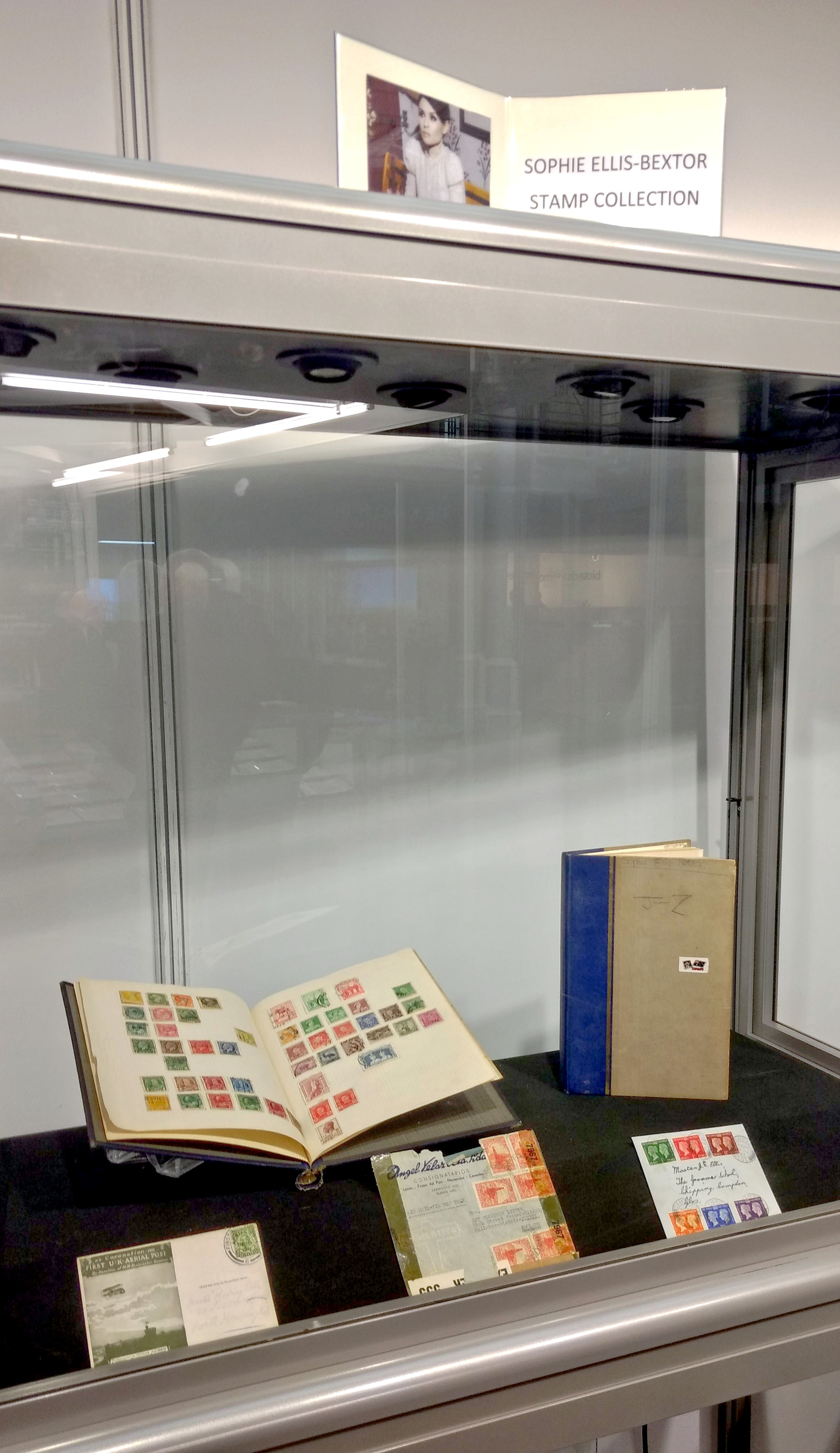 Sophie Ellis-Bextor's stamp collection Spring Stampex 2018